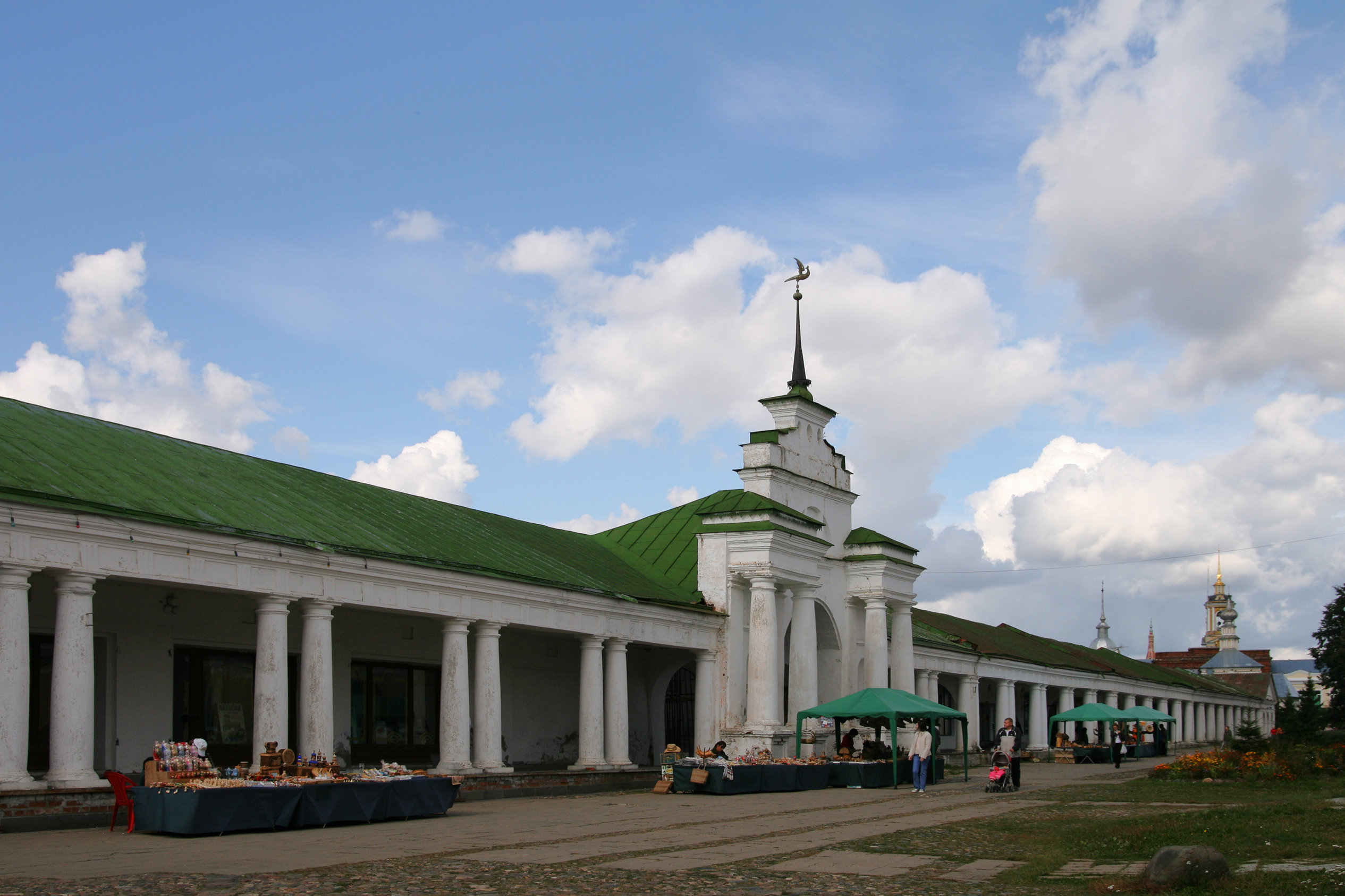 Suzdal trade rows